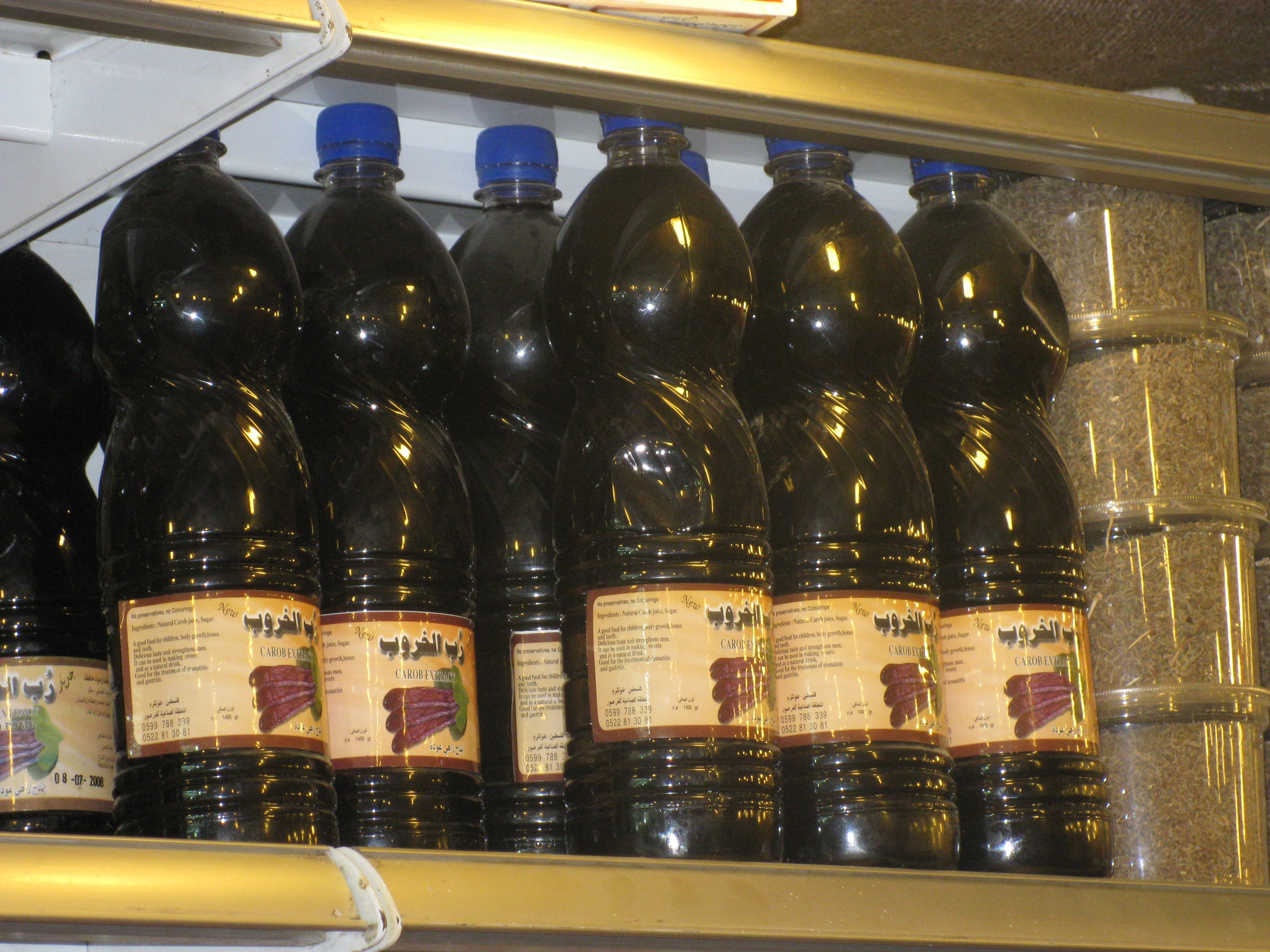 Bottles of carob juice in the Souq of the Old City of Jerusalem, Suk Khan Az-Zait, AL-QUDS GROCERY.